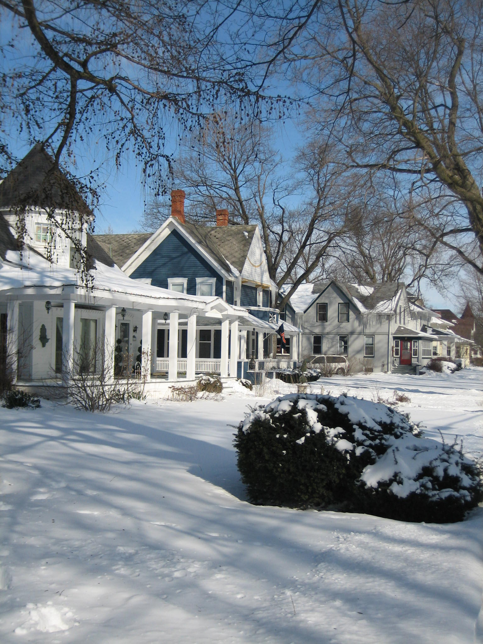 500 Block Main St. Sycamore, Illinois. Sycamore Historic District, National Register of Historic Places. Visible: J.H. Rogers/Bettis House, Charles A. Bishop House.